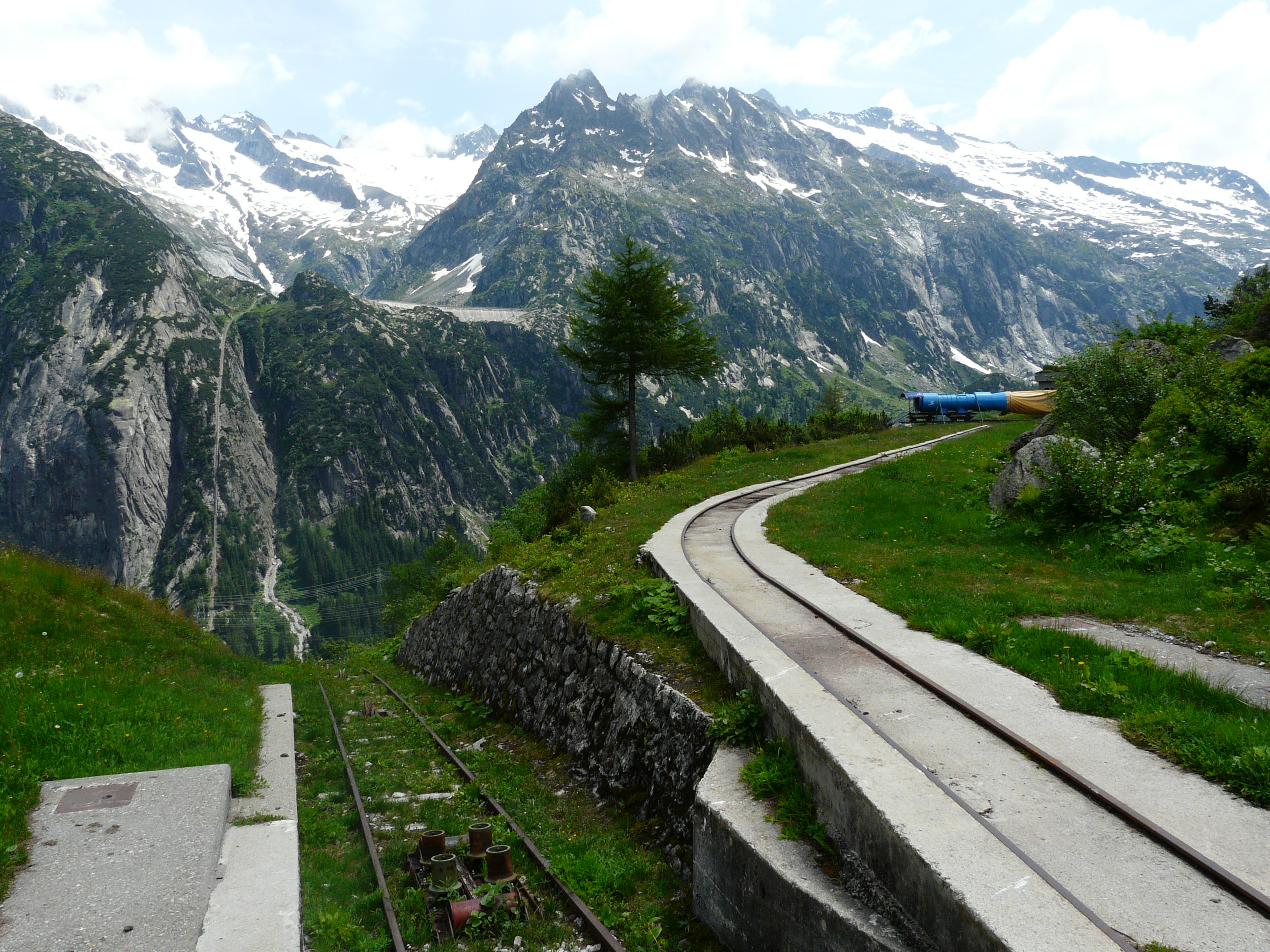 Route of Gelmerbahn (left on the opposite side of the valley) from Wasserschloss Handeggfluh Ärlen, the mountain station of another inclined lift from Handegg. On the right a short field railway track.